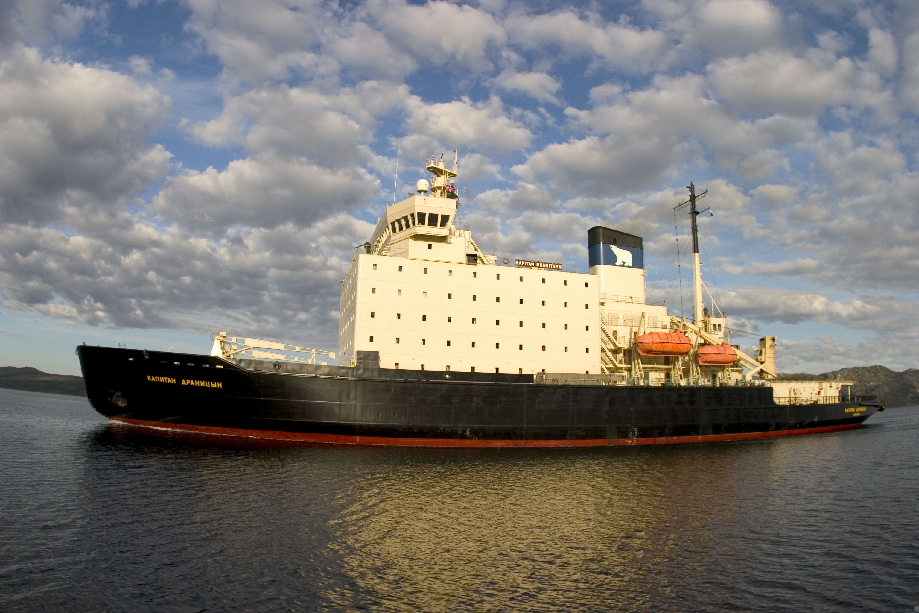 The KAPITAN DRANITSYN, a Russian icebreaker, chartered for Arctic research cruises. Here it is in the harbor awaiting the beginning of NABOS 2006 (Nansen-Admundsen Basin Observation System) cruise.